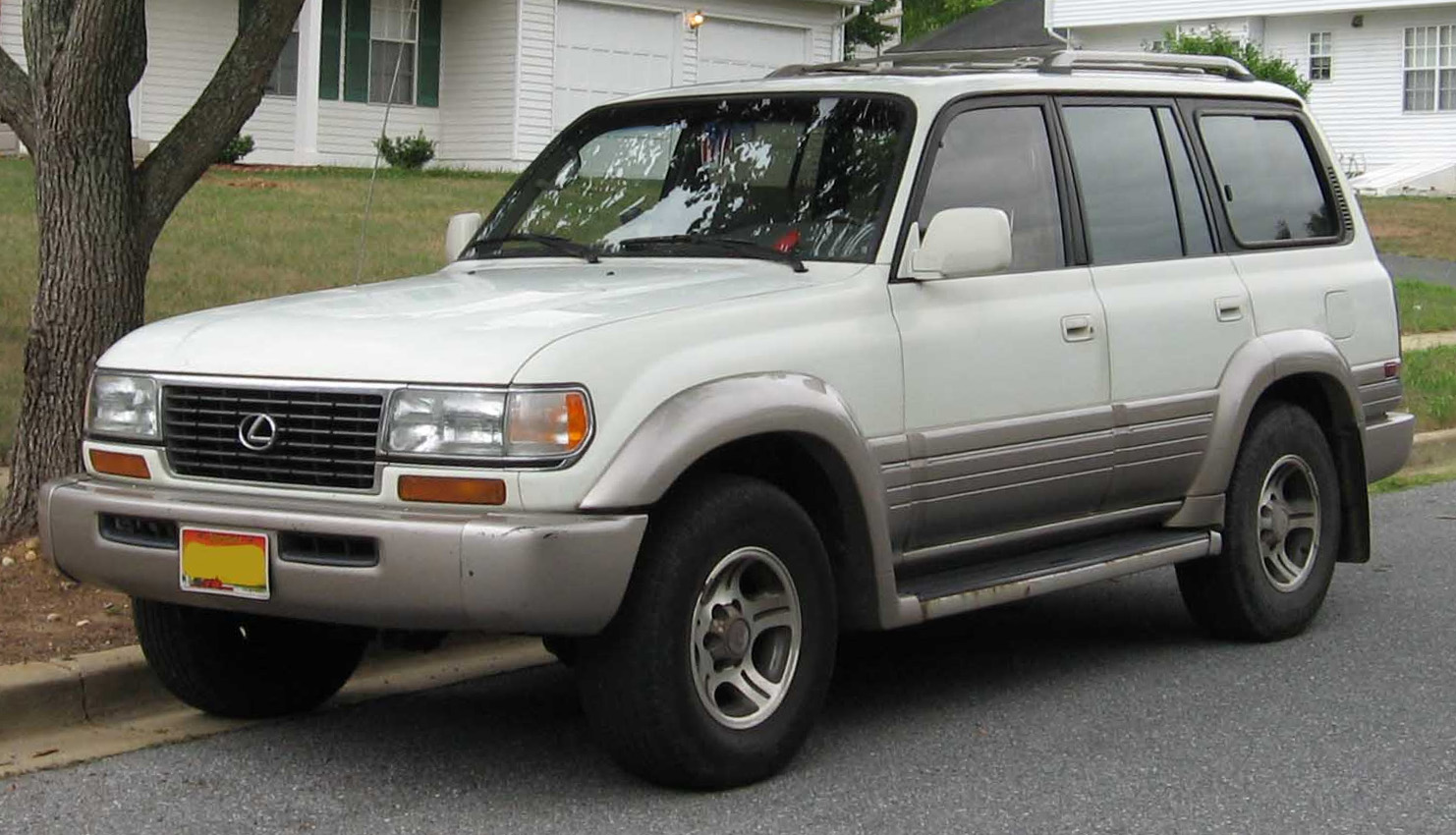 Lexus LX 450 photographed in USA.